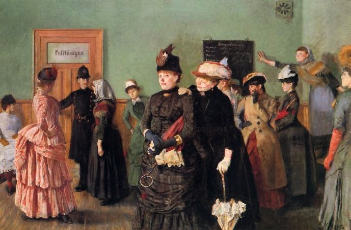 The most famous image of Albertine